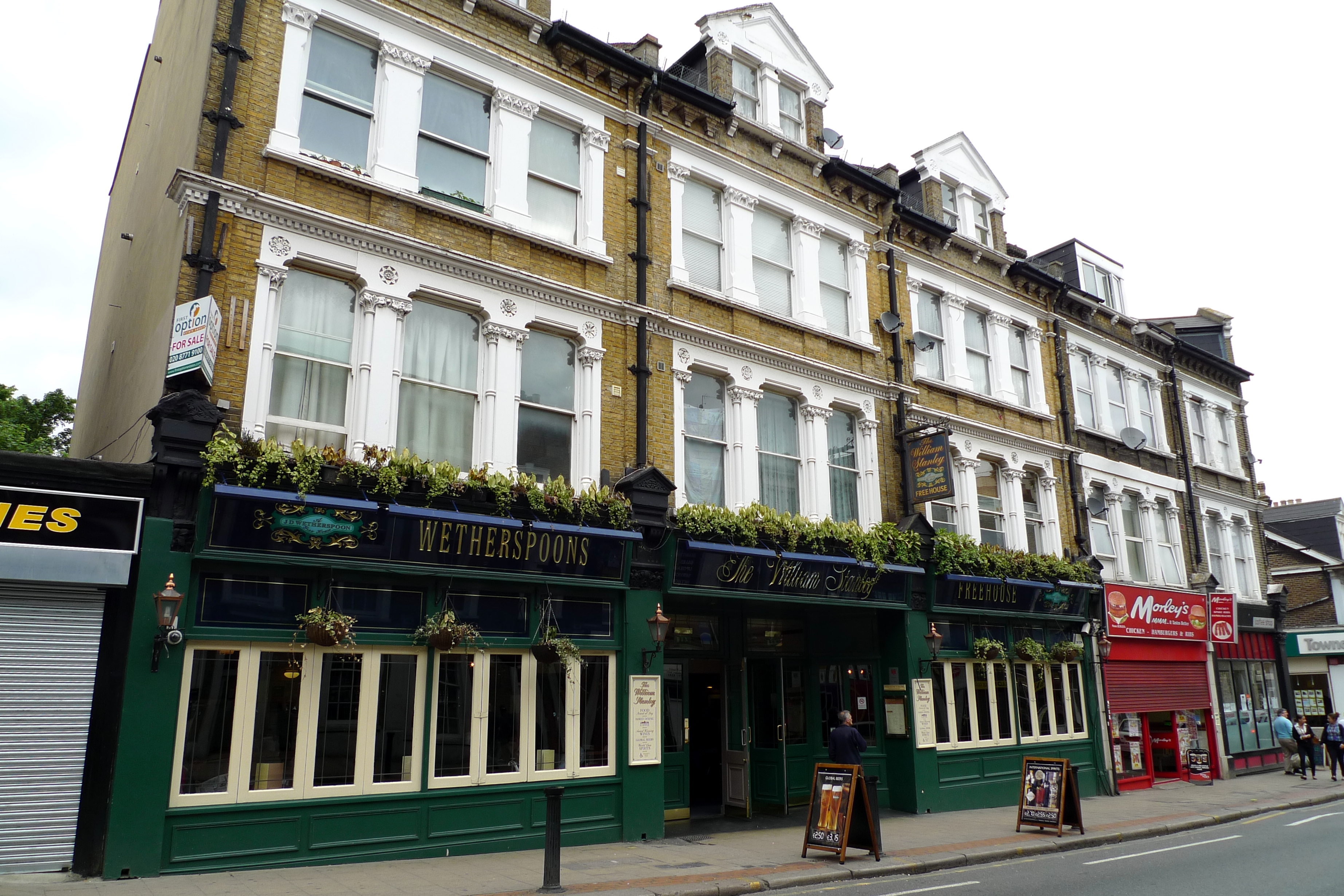 Standard shop-conversion high street Wetherspoons. Address: 7-8 High Street. Owner: JD Wetherspoon (website). Links: Beer in the Evening